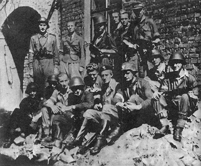 WarsawUprising: "Golski" Battalion